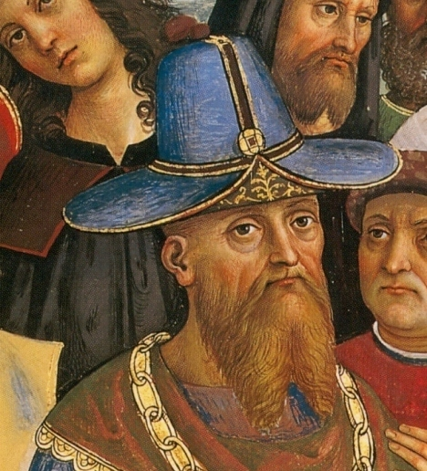 Despot Thomas, detail Pintoriccio fresco of Pius II at Ancona, Italy c. 1471 Piccolomini Library of Siena Cathedral